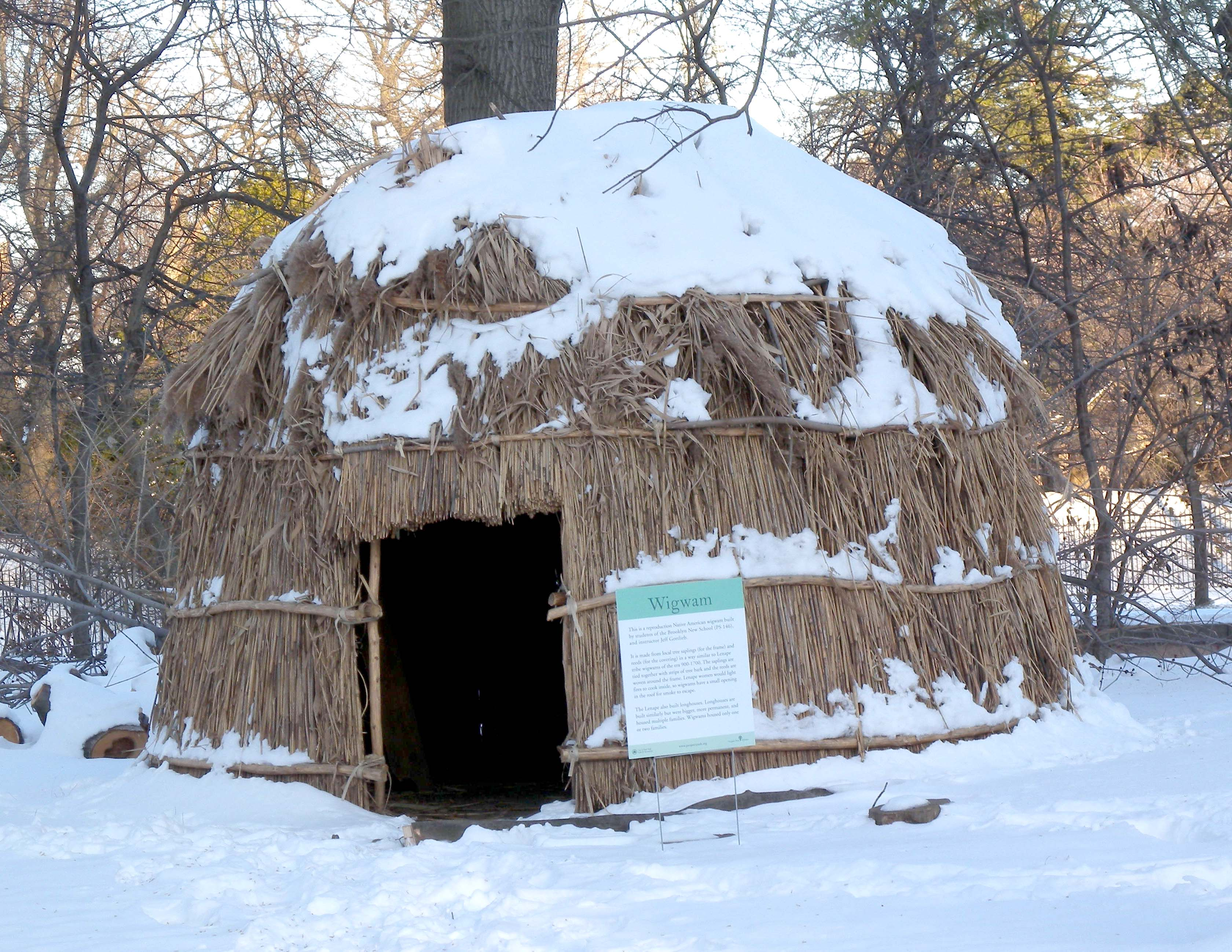 Looking east at wigwam, south of Lefferts Historic House, on a sunny late afternoon after snow.